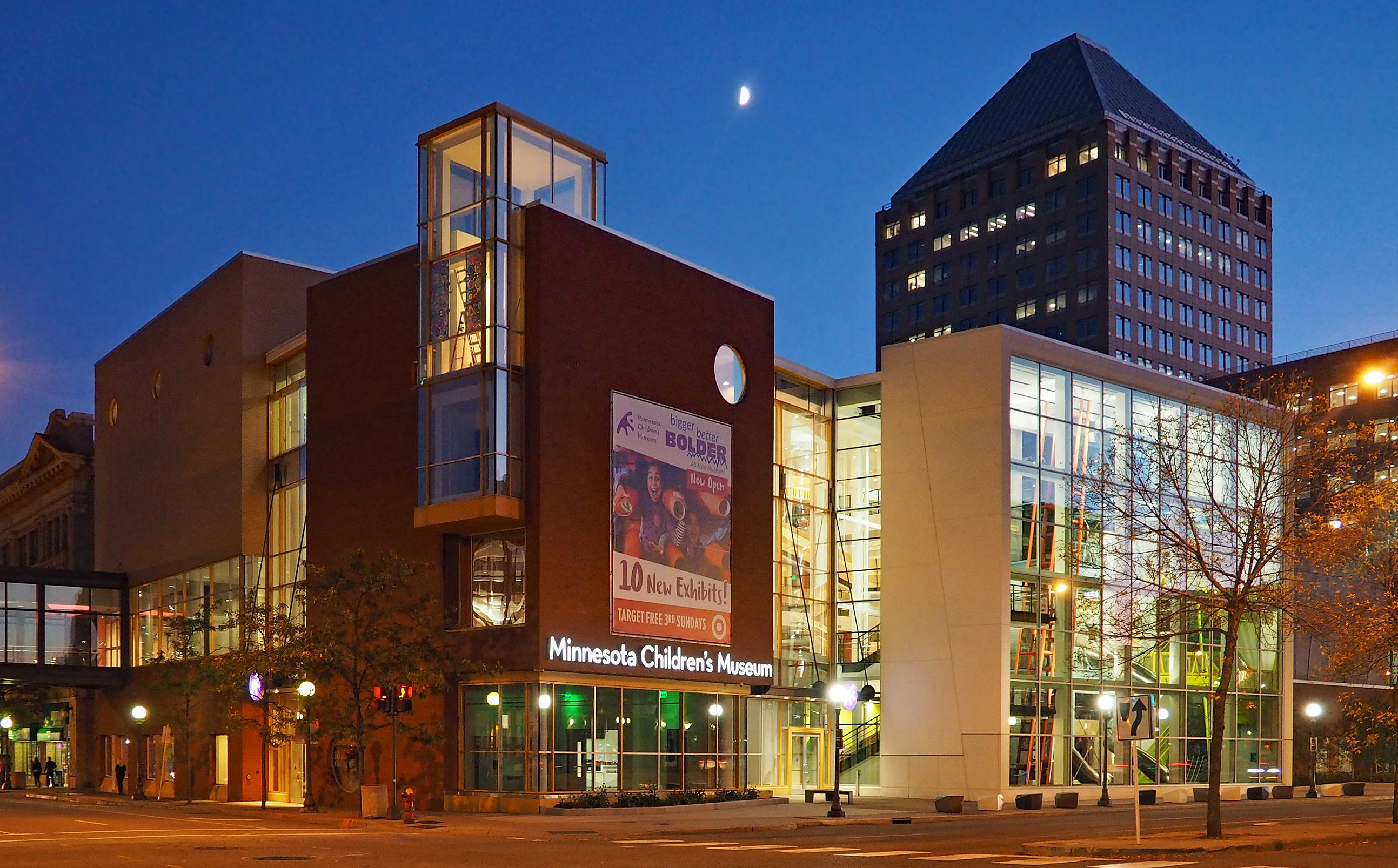 Minnesota Children's Museum, 10 W 7th St, St Paul, Minnesota, USA. Viewed from the north-northeast.